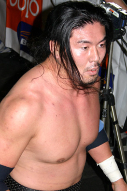 Kenzo Suzuki leaves the ring during a WWE house show held in Kitchener, Ontario, Canada on January 15, 2005.